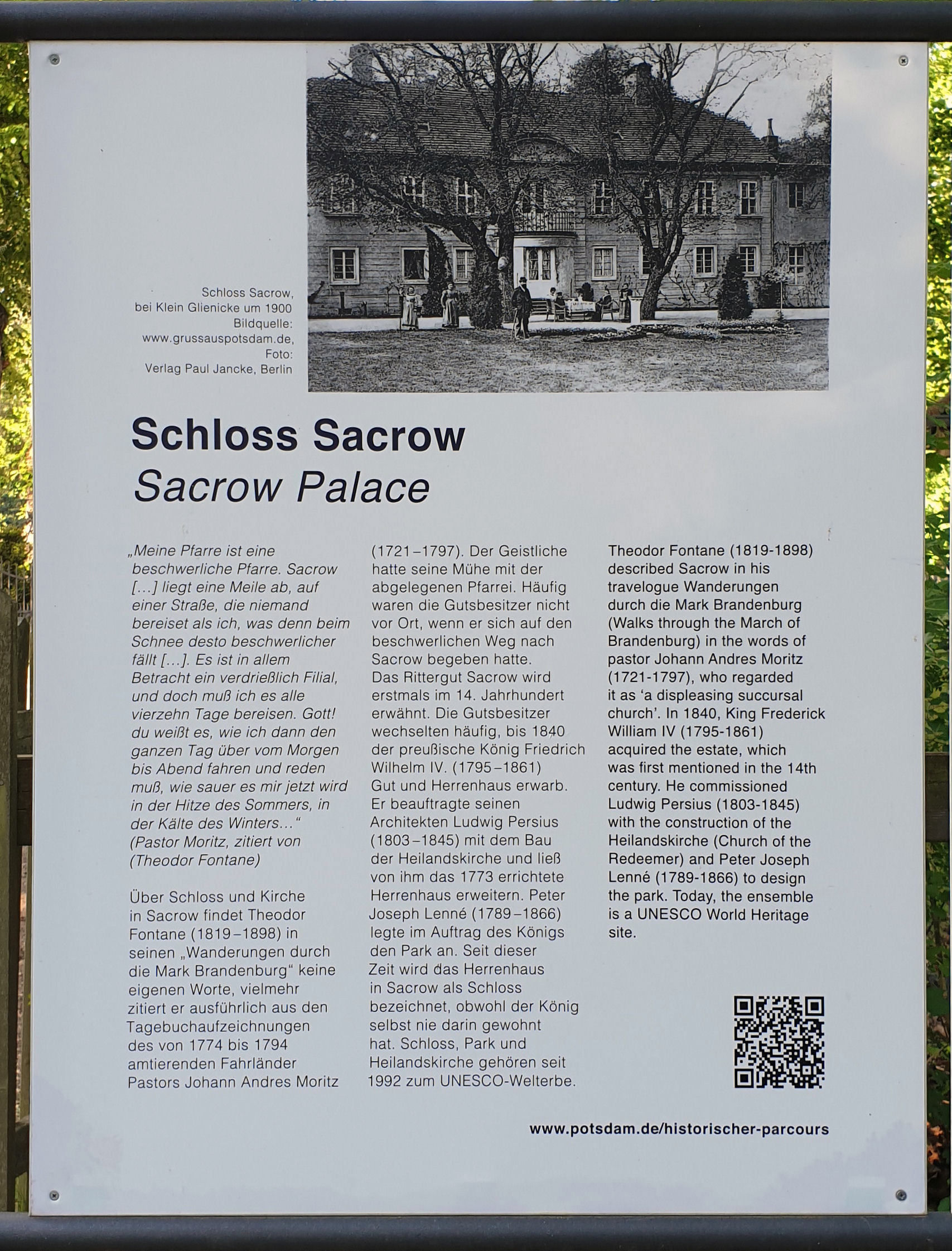 Memorial plaque, Schloss Sacrow, Krampnitzer Straße, Potsdam, Deutschland